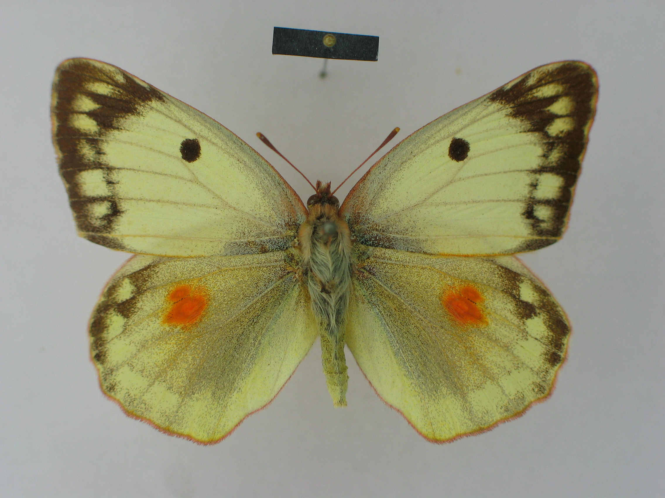 Specimen of the species Colias aurorina aurorina from the collection of the Museum für Naturkunde; ♀ dorsal side; scalebar=1 cm